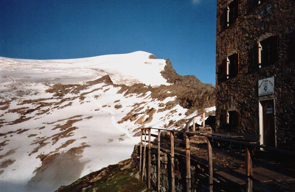 The Neue Prager Hütte with view to the Grossvenediger